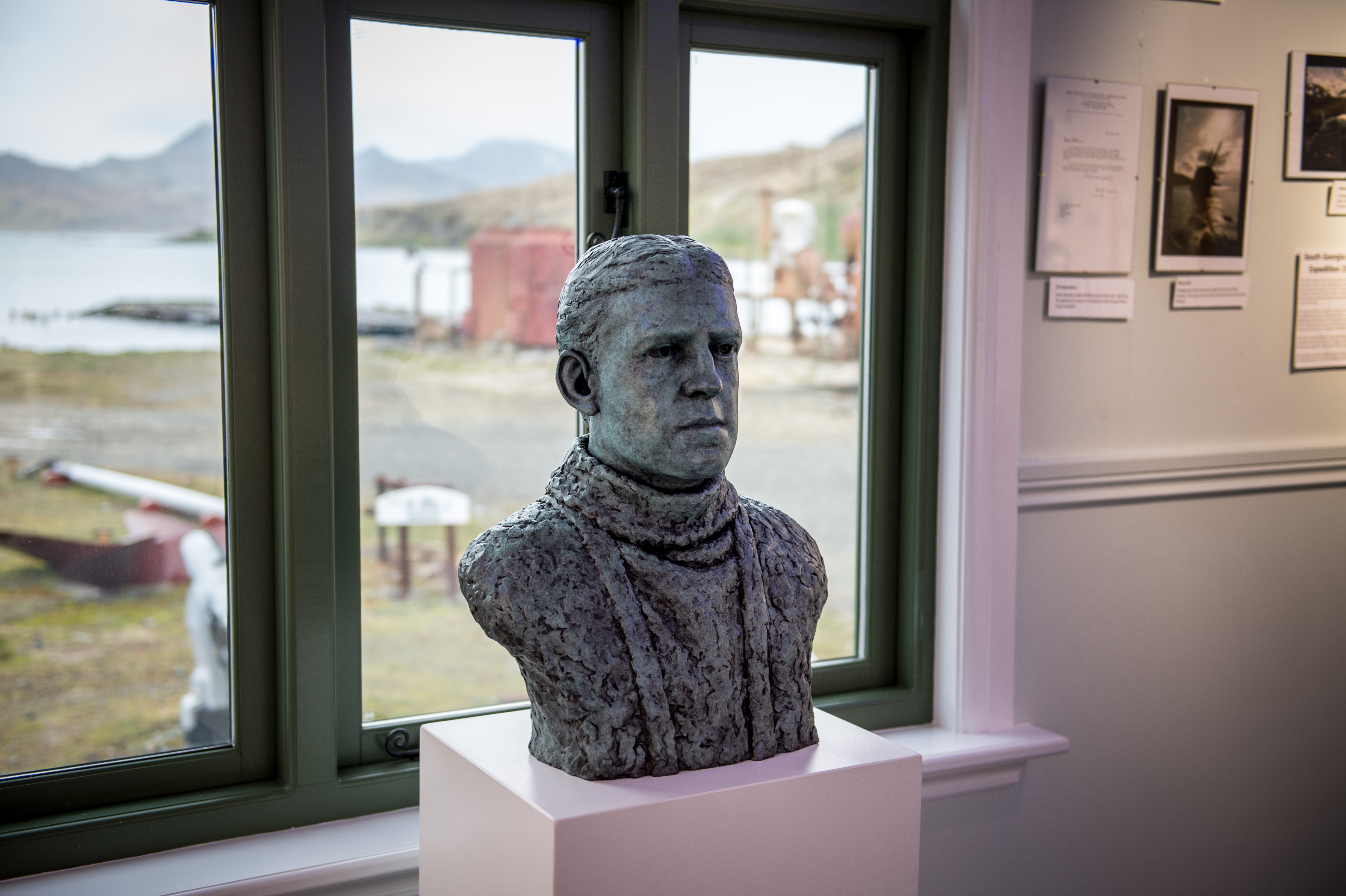 Bronze portrait bust of Sir Ernest Shackleton (by the sculptor Anthony Smith) at the South Georgia Museum, Grytviken, South Georgia. Unveiled in November 2017.